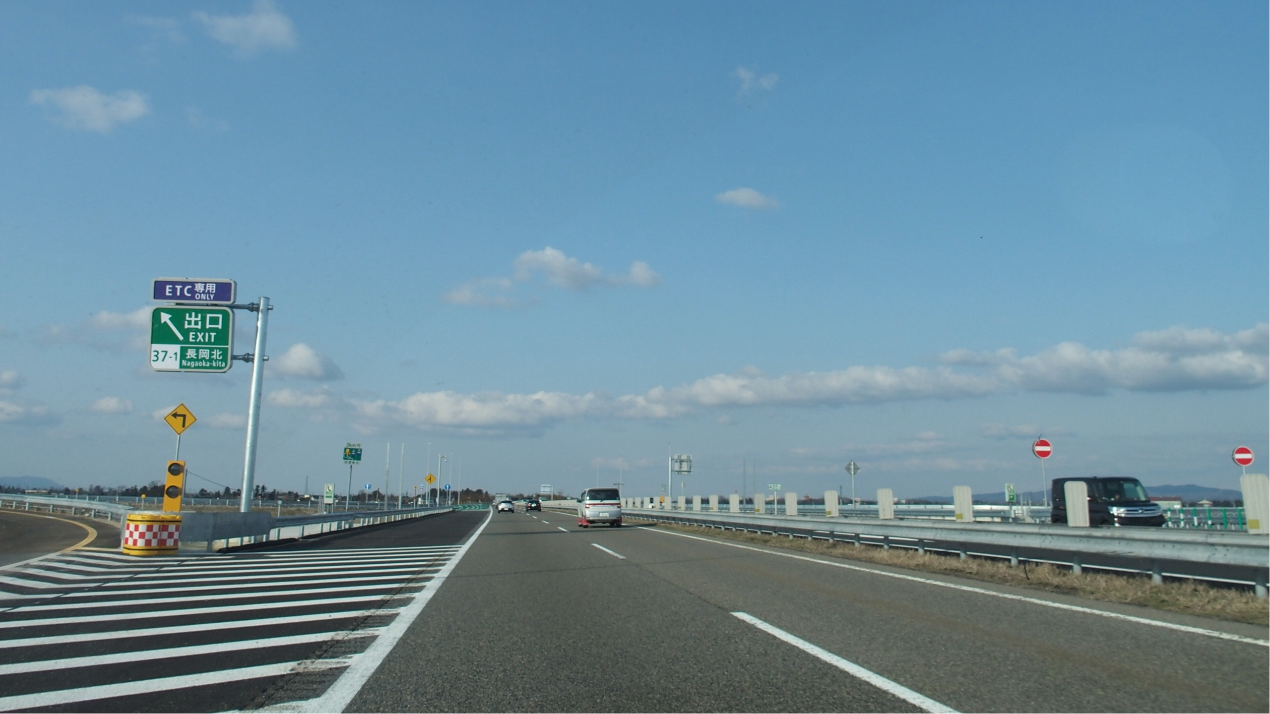 Nagaoka-kita Smart Interchange